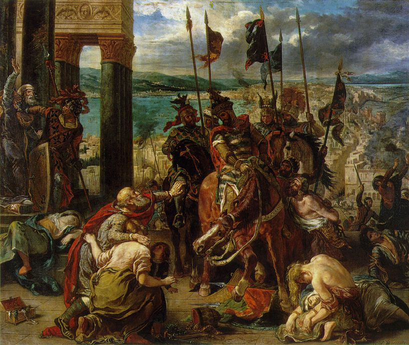 Eugene Delacroix's art